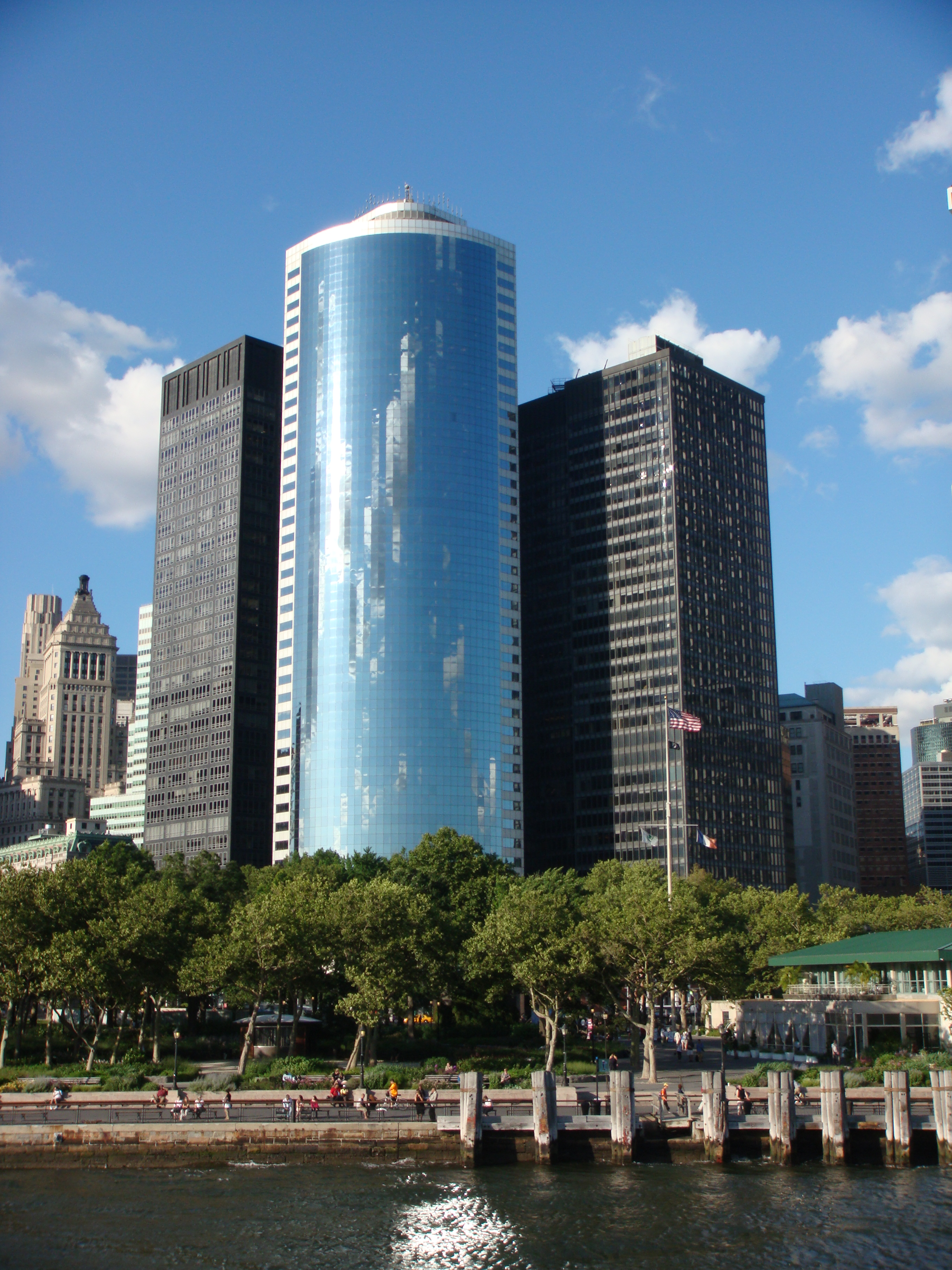 17 State Street, Downtown